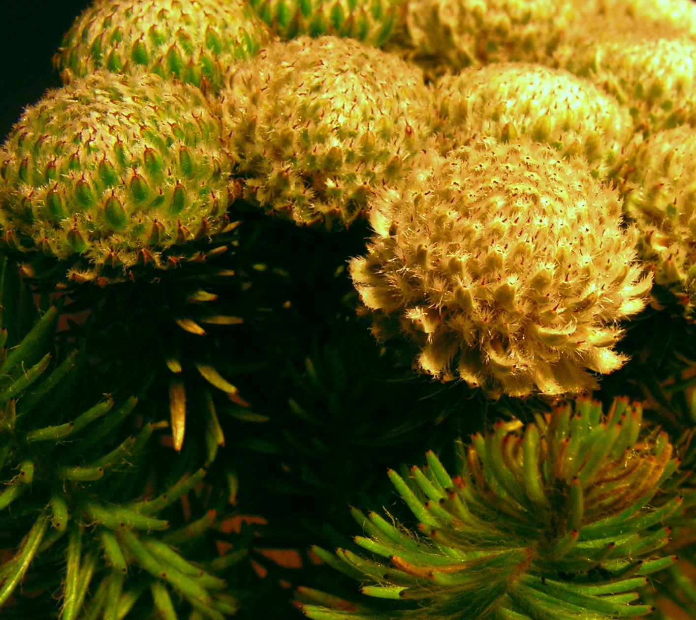 The leaves and the knobby inflorescences of Brunia sp. (family Bruniaceae)